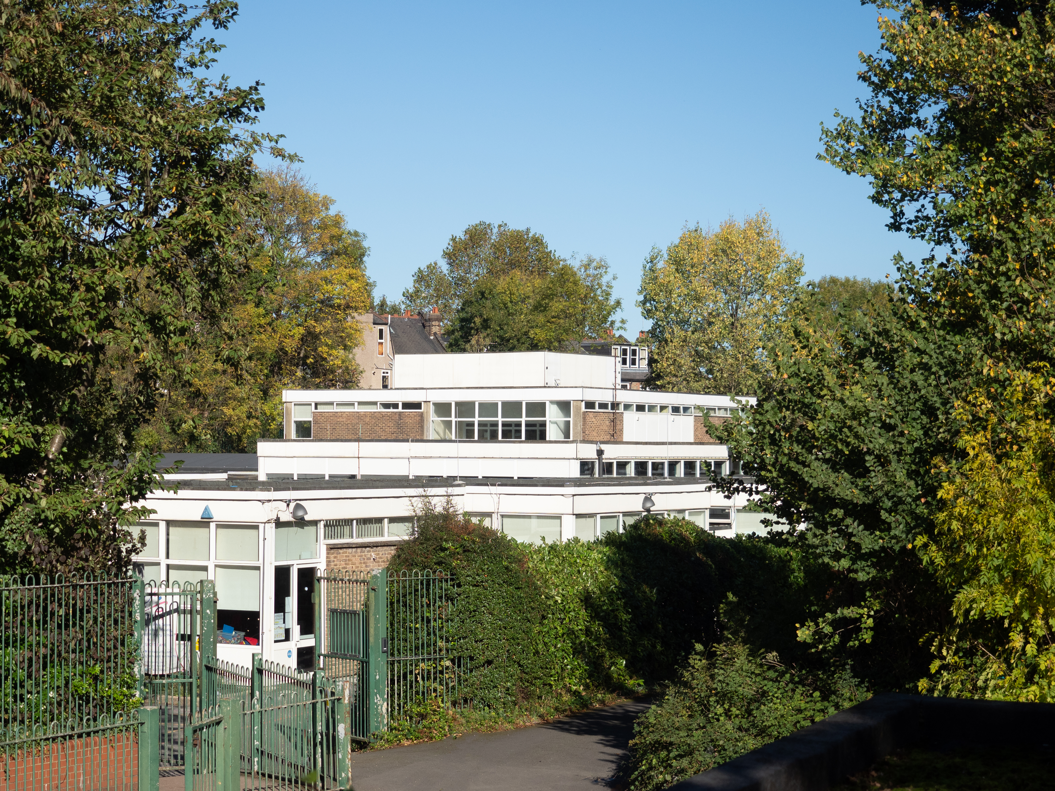 Muswell Hill Primary School, London N10, seen from the path that leads from Muswell Hill into Alexandra Palace's surrounding park.